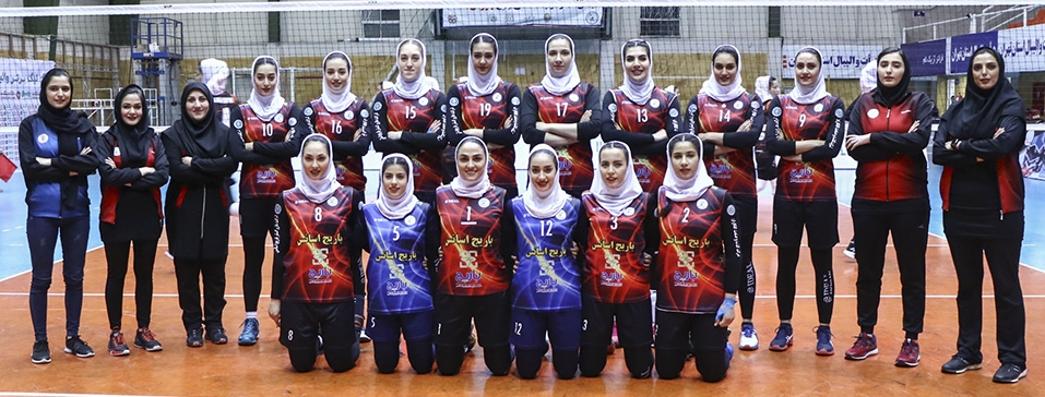 Iranian women volleyball league 2019. First week of the second round